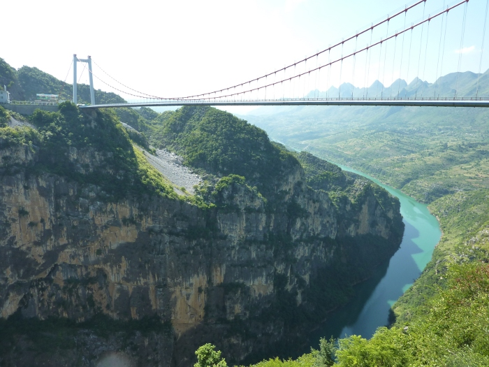 The Beipanjiang Suspension Road Bridge in Guizhou province, China